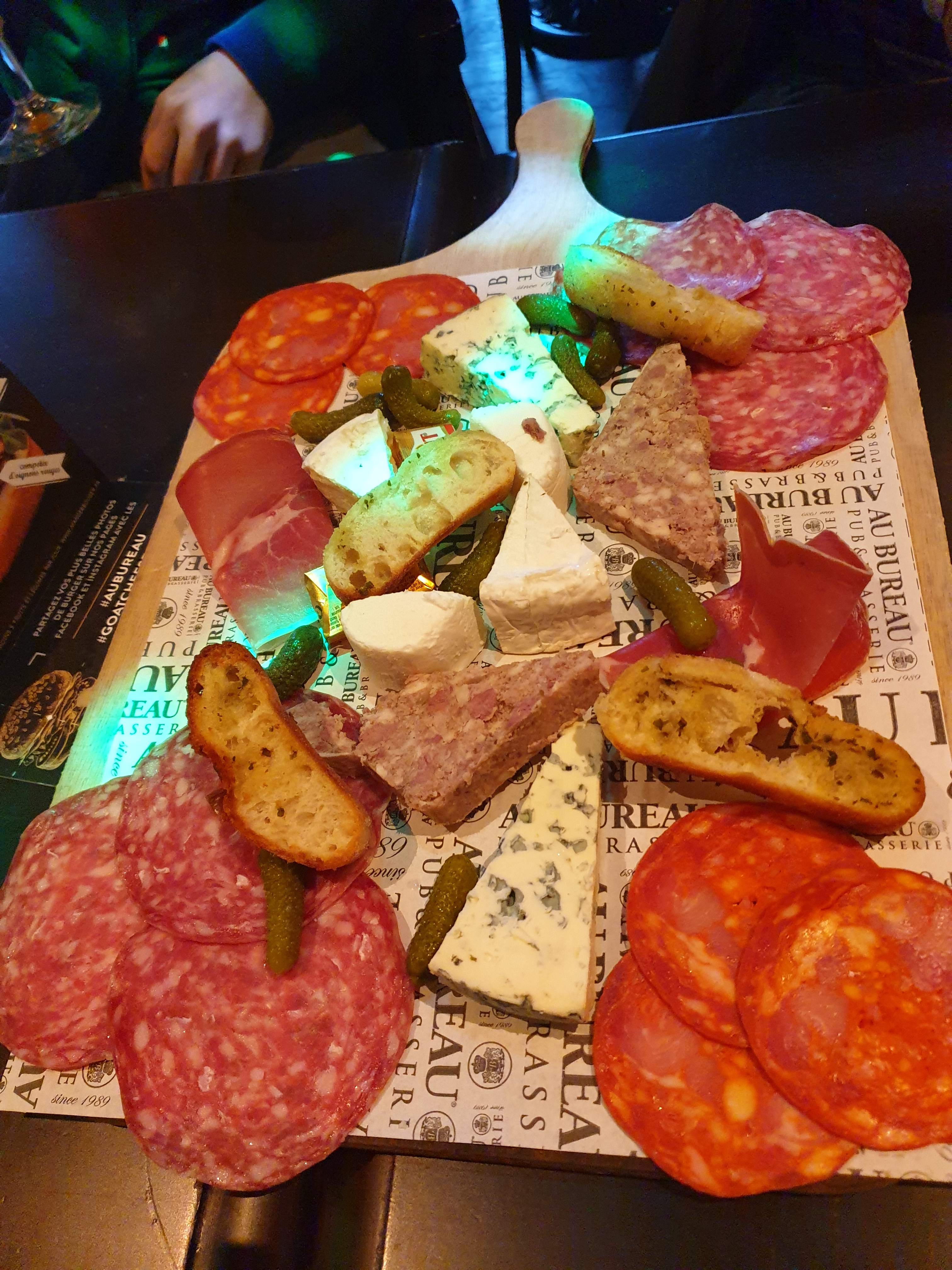 Charcuterie and cheese board from restaurant Au Bureau at Velizy in France